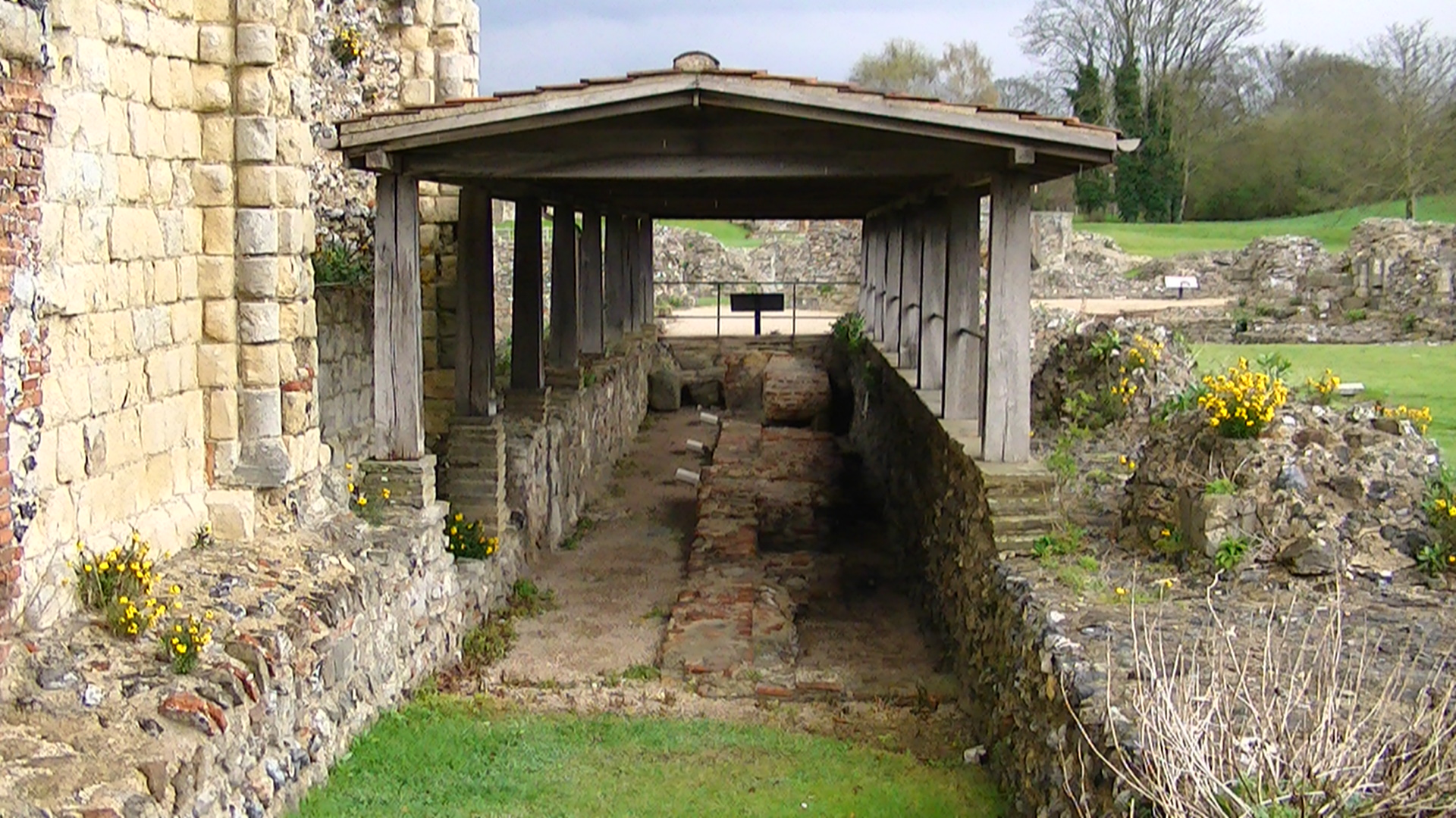 Portico at St Augustine's Abbey, Canterbury, burial site of the early bishops